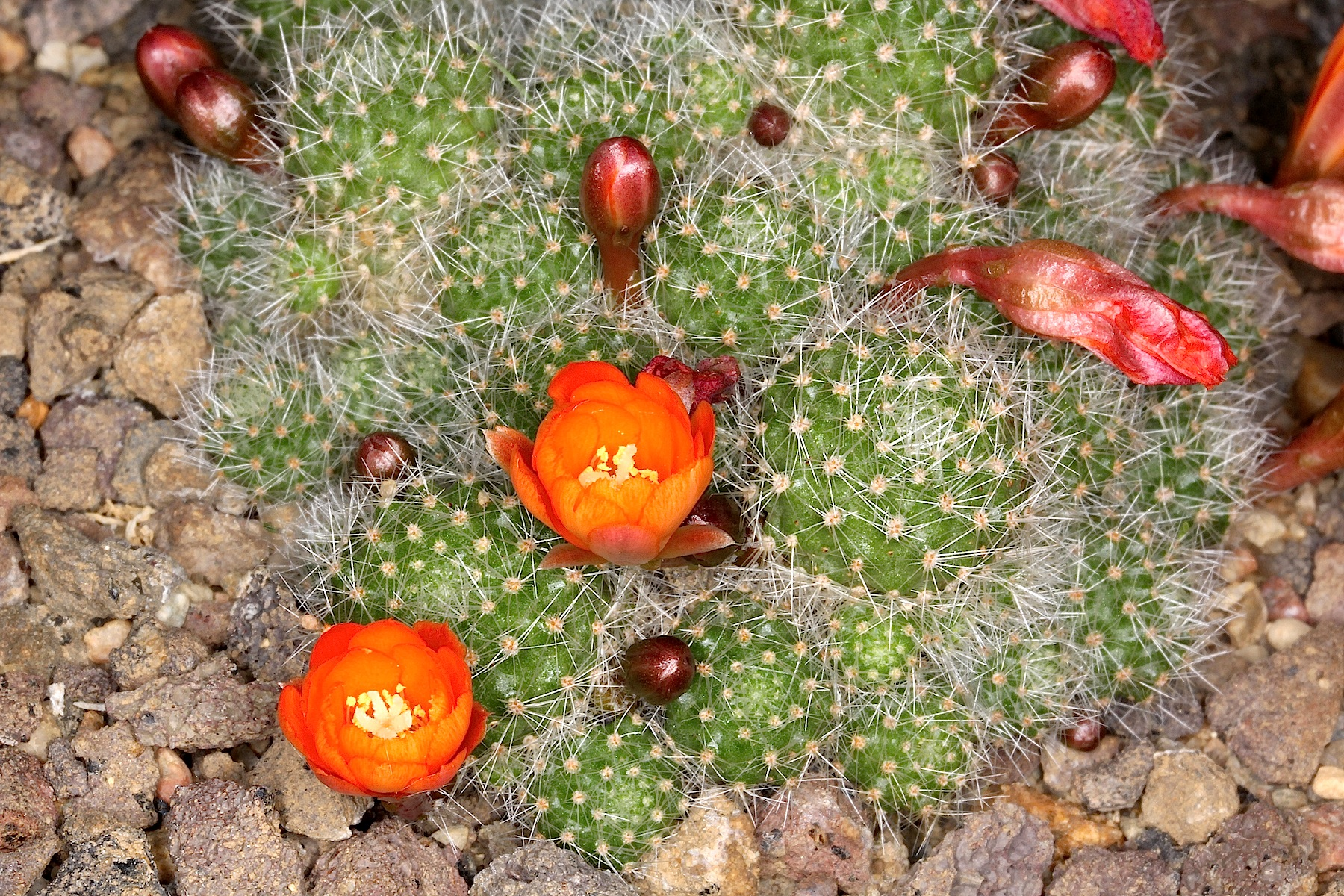 Rebutia pulvinosa